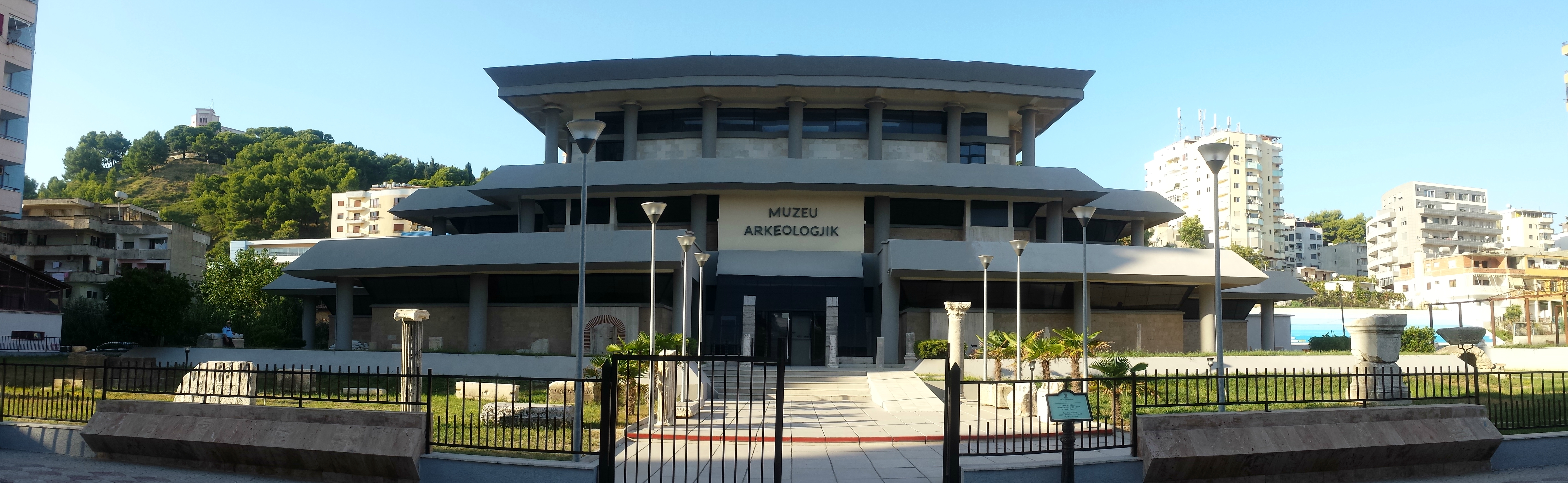 Archaeological Museum of Durrës